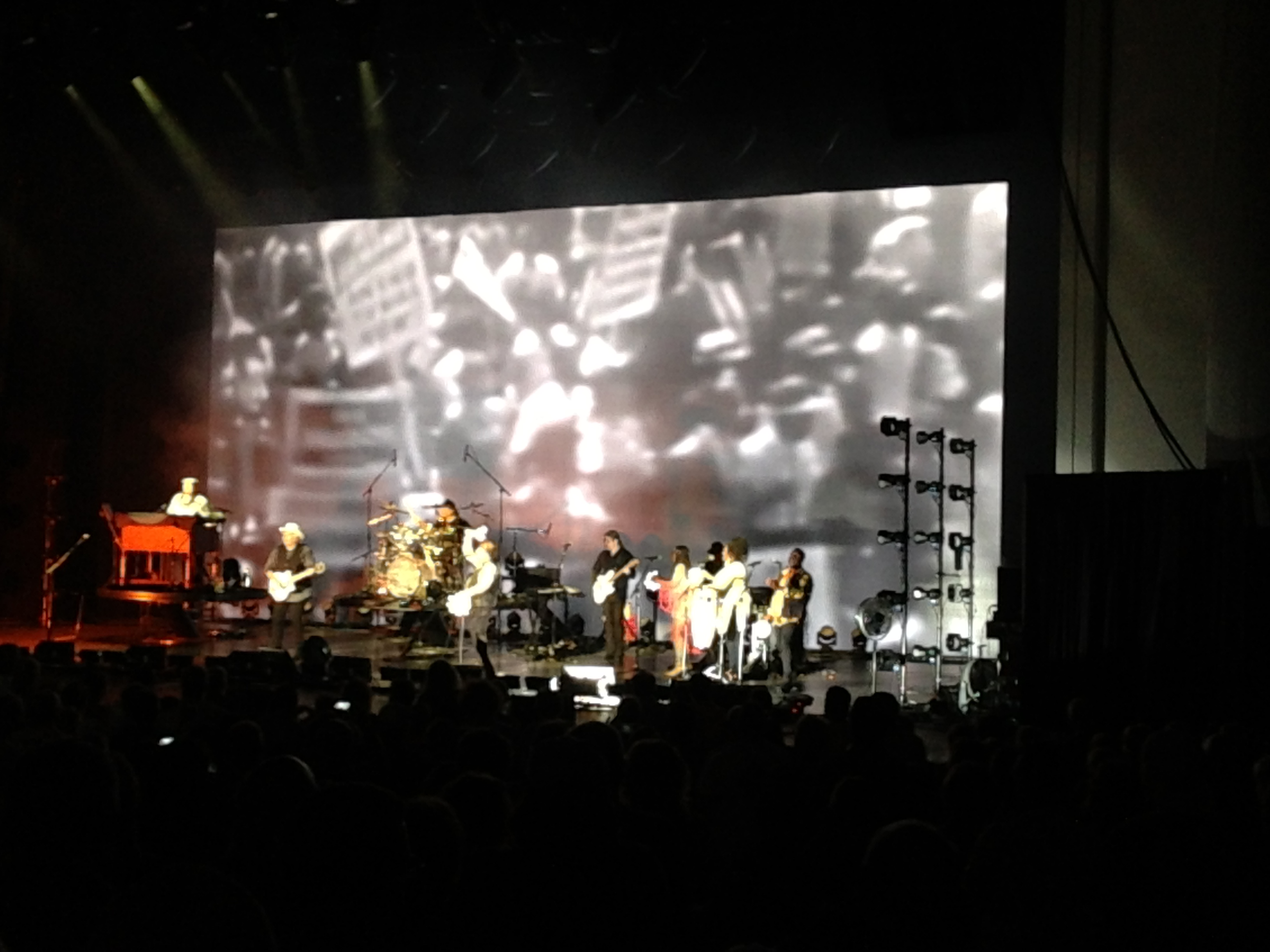 The Rascals performing their 1968 hit "People Got to Be Free" during their 2013 Once Upon a Dream show at the PNC Banks Arts Center in Holmdel, New Jersey. The video screen shows footage of 1960s civil rights protest marches, matching the theme of the song.